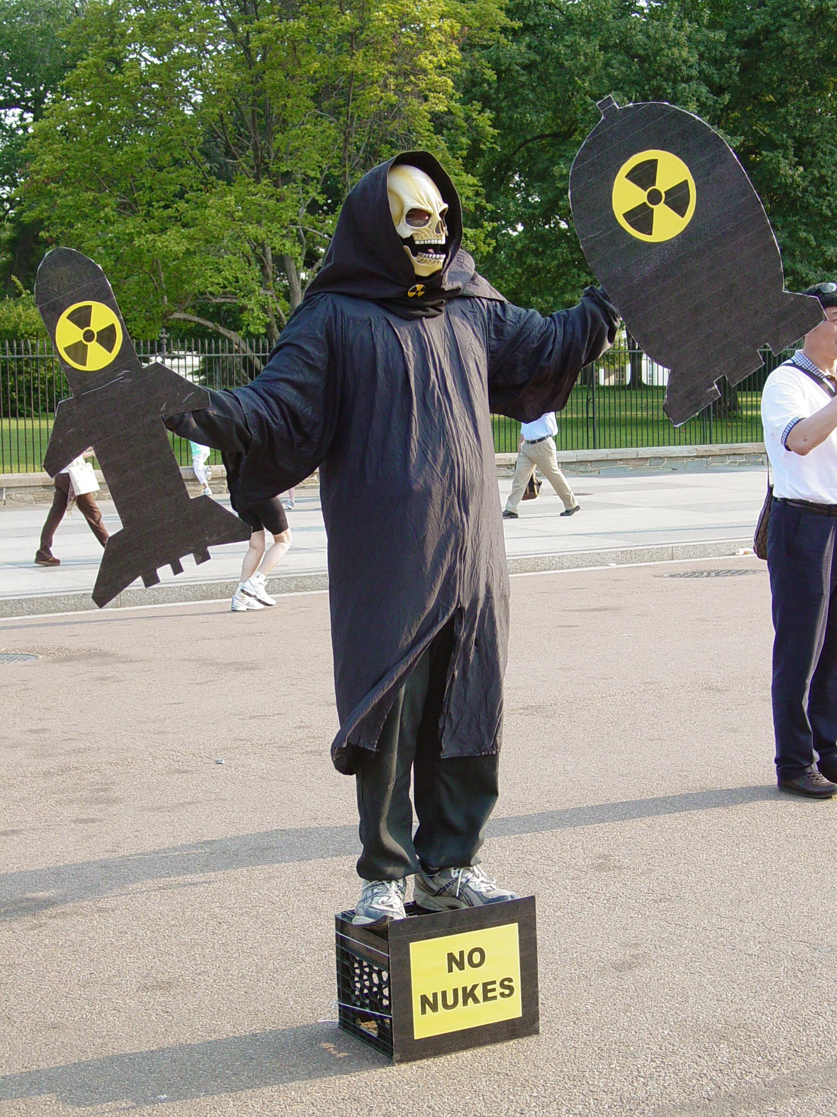 Jose Rodriguez dressed in "Nuclear Death" costume, at DAWN's "No Armageddon For Bush" rally. Photo taken June 6, 2006 by Ben Schumin.